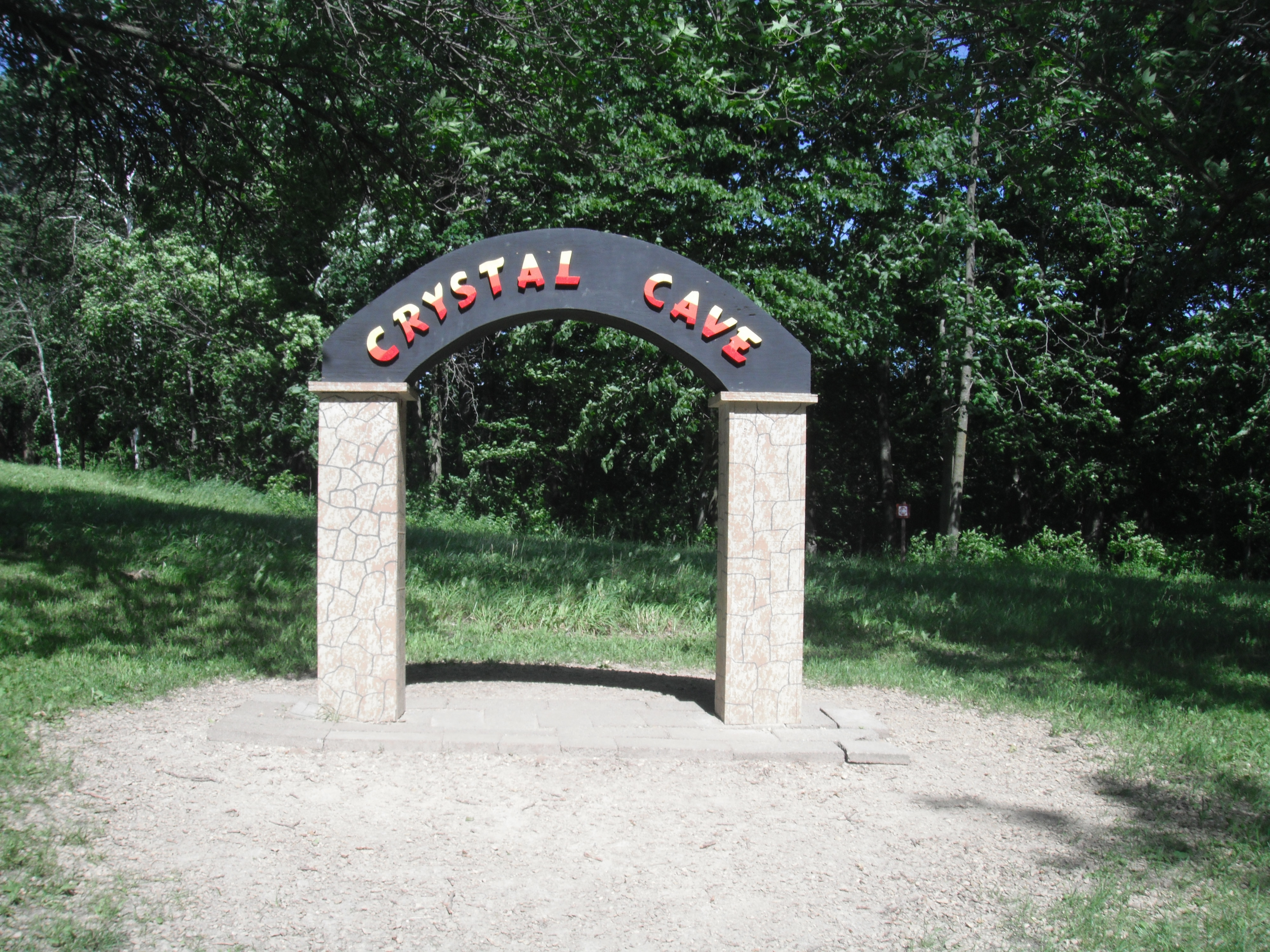 Crystal Cave sign in Wisconsin